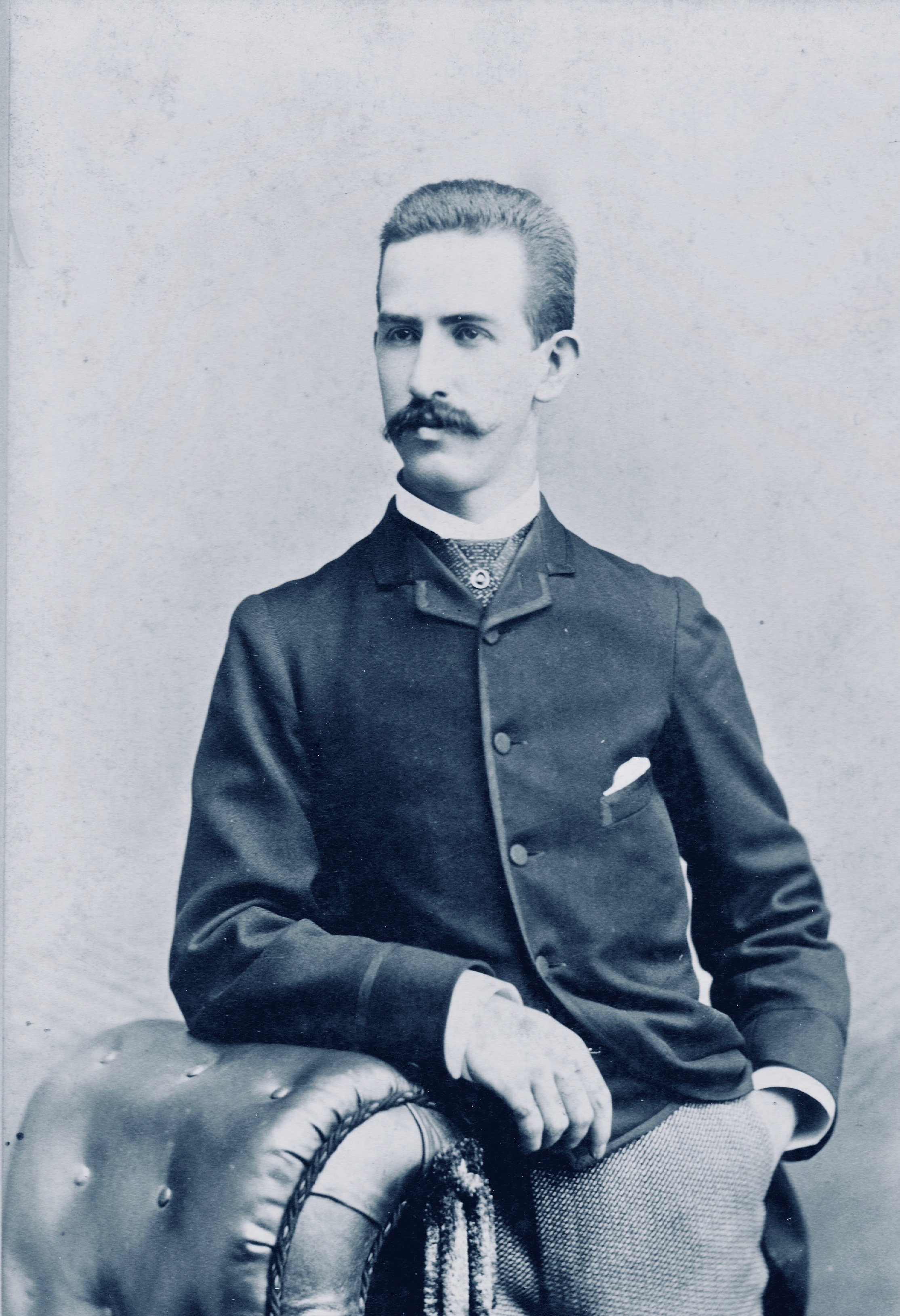 Henry Jagger Corbett (1857-1895) eldest son of Sen. Henry W. Corbett, who predeceased his father dying of TB. He married William S. Ladd's eldest daughter Helen Kendall Ladd. They had three sons, Henry Ladd Corbett, Elliott Ruggles Corbett, and Hamilton Forbush Corbett